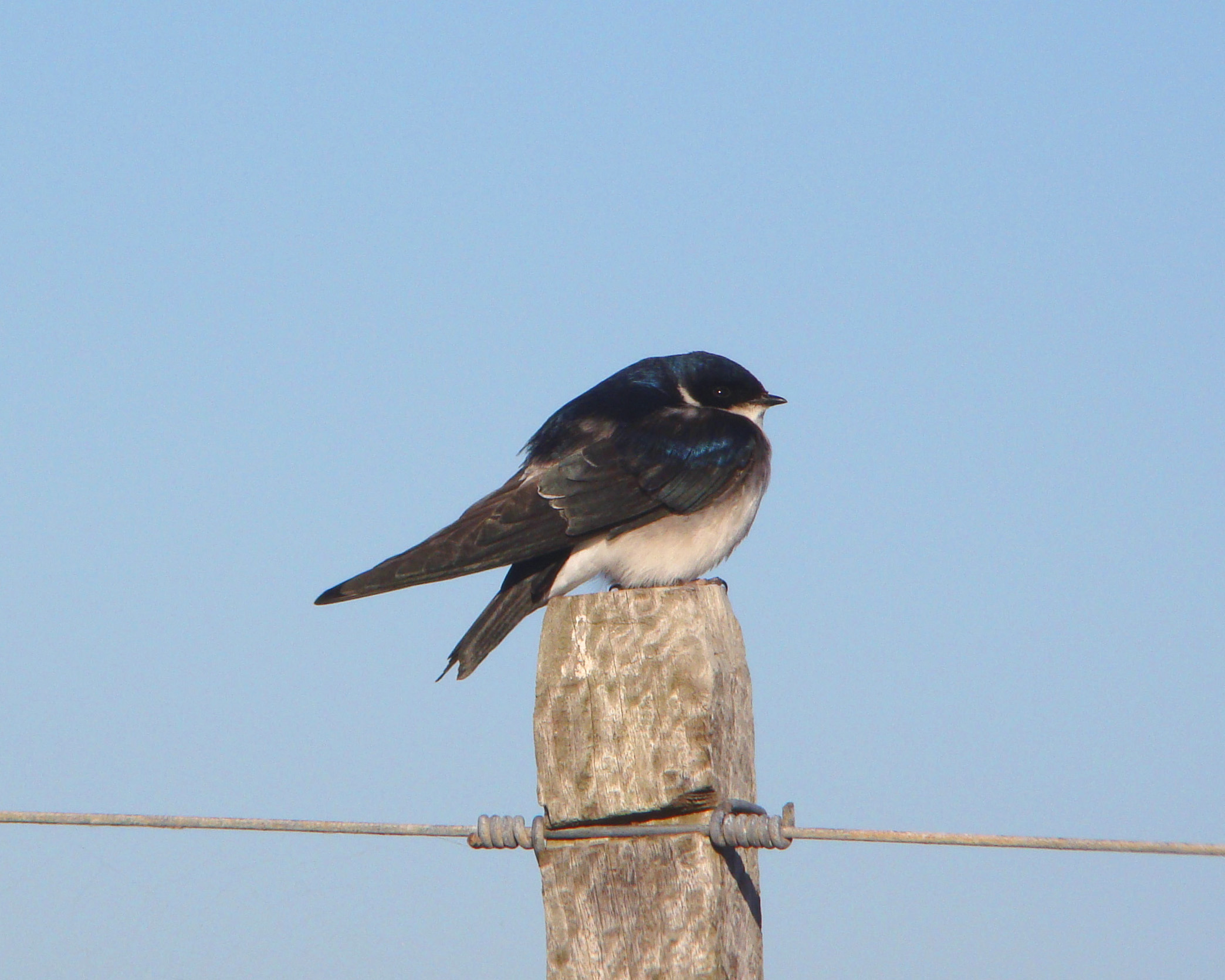 Tachycineta leucopyga photographed in Rio Grande do Sul, Brazil, in July 2009.